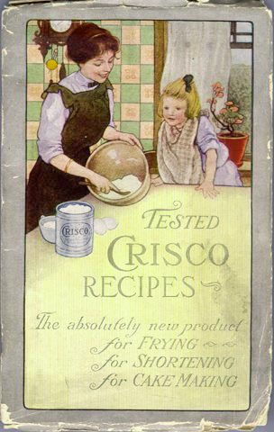 Front cover of the first Crisco cookbook, published in 1912. This file was obtained from the crisco website in the timeline section [1]. This work is in the public domain in the US per Wikipedia:Public domain because it was published before 1923.